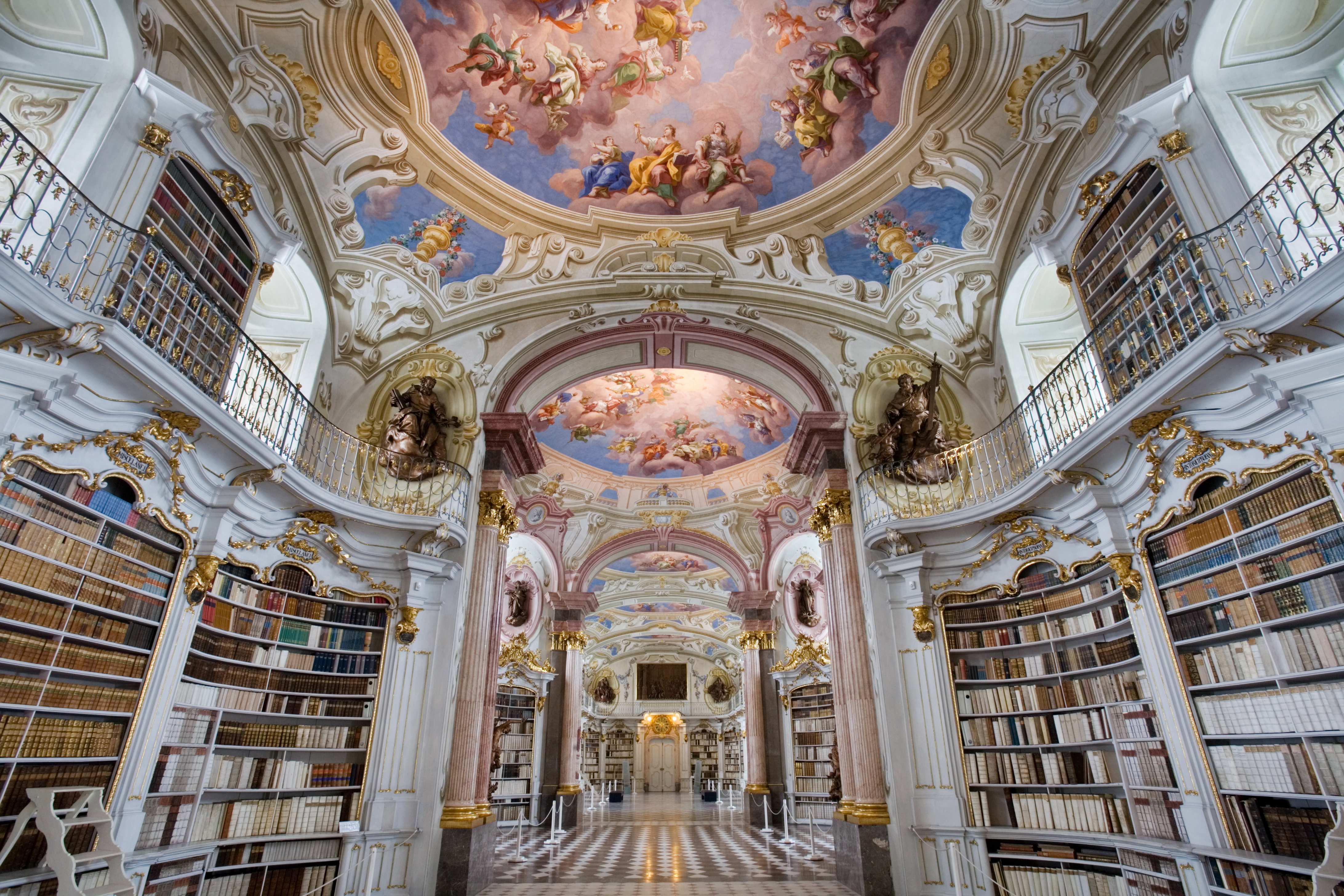 Admont Abbey Library, Austria